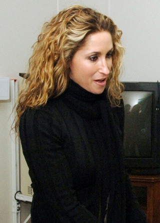 LANDSTUHL REGIONAL MEDICAL CENTER, Germany (AFPN) -- Trick Pony's lead singer Heidi Newfield visits with a patient on Thanksgiving Day. Touring with the Band of the Air Force Reserve and the U.S. Air Forces in Europe band, she visited the hospital to serve dinner, sign autographs, and to thank the troops.